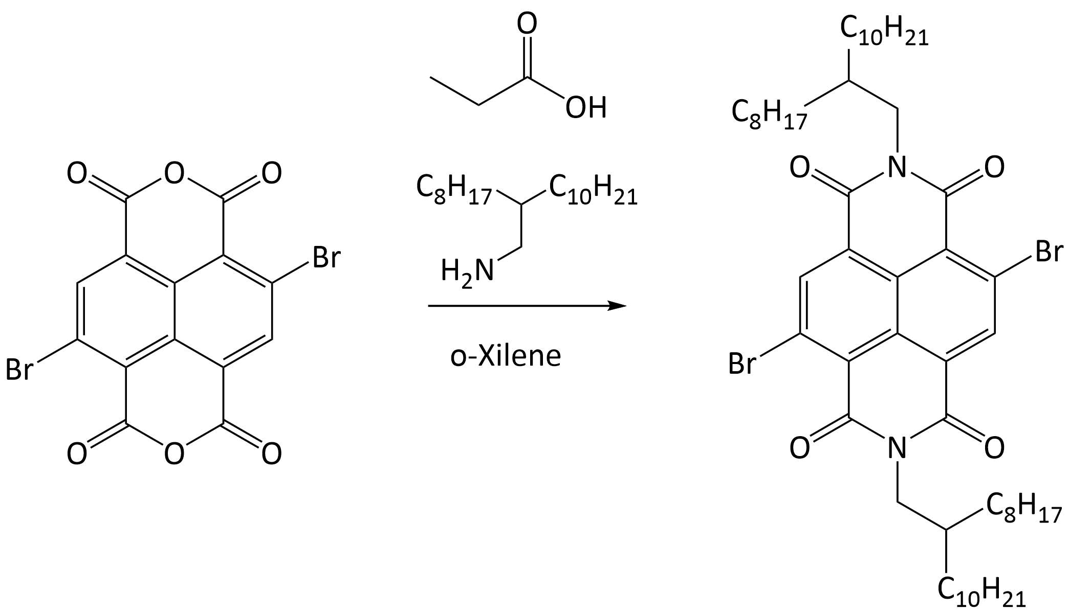 Functionalization of NDA to NDI2OD